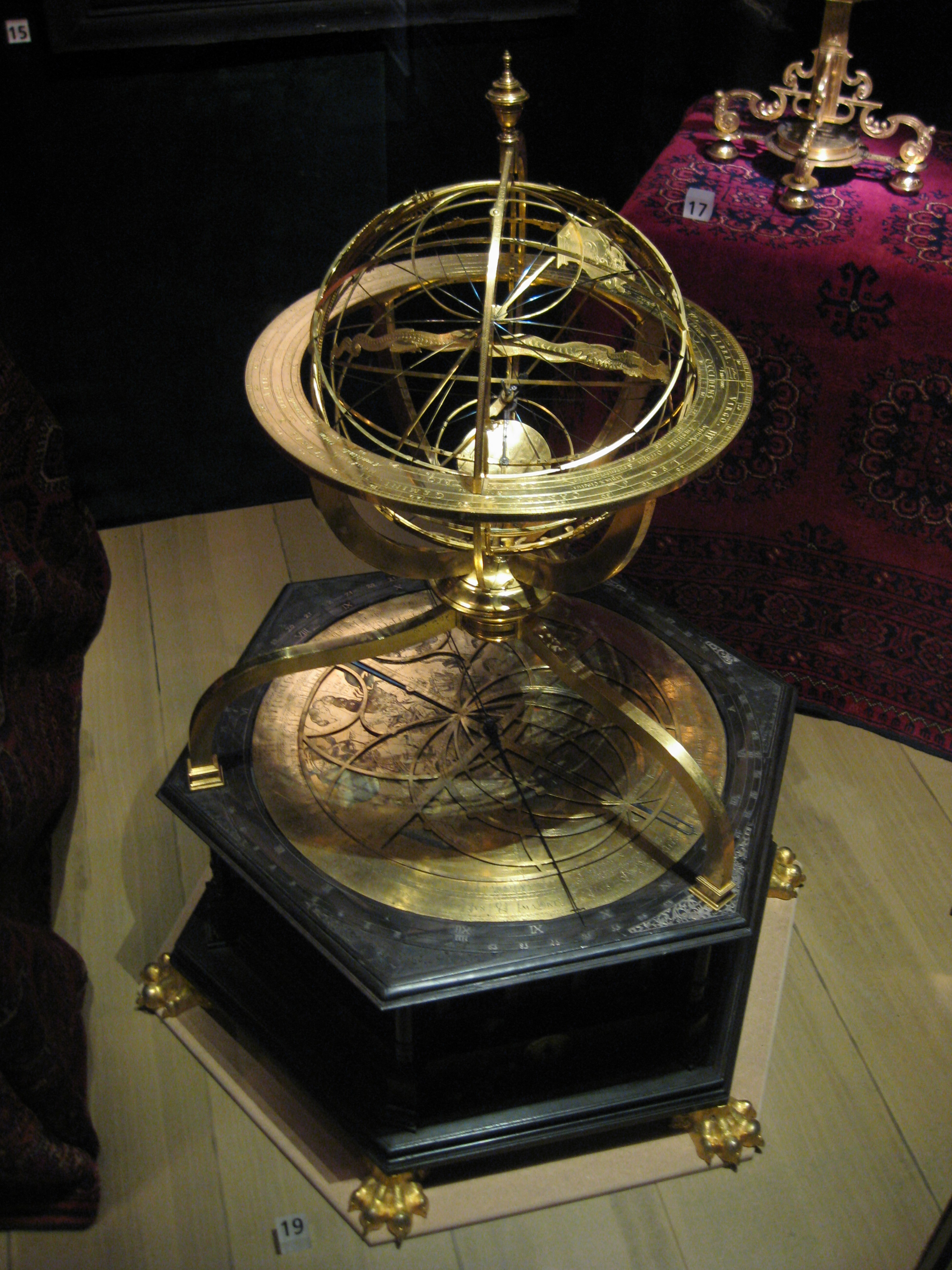 Armillary sphere with astronomical clock made by Jost Bürgi and Antonius Eisenhoit, Kassel, 1585. Constructed from bronze, steel and ebony. The sphere was looted from Prague by Swedish forces in 1648 and is currently the property of the Nordiska Museet in Stockholm. Note says: "Johannes Kepler studied the stars with the help of this armillary sphere".